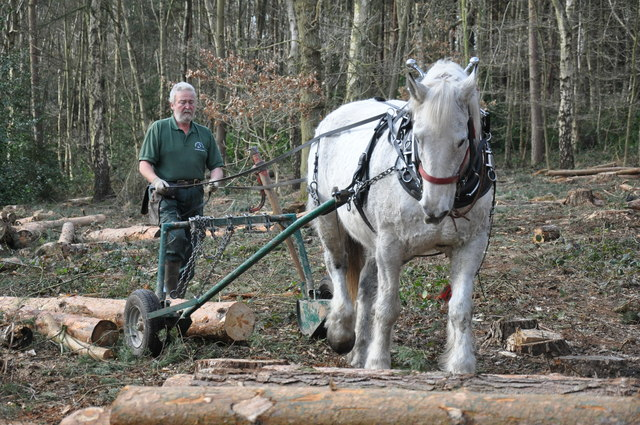 Horse Logging in the Out Woods, Charnwood Forest. The Ancient Woodland called the Out Woods in Charnwood Forest near Loughborough is carefully managed. Rather than using destructive wheeled tractors to haul the felled logs up the hill, the British Horse Loggers Charitable Trust provide a more interesting and sympathetic service.